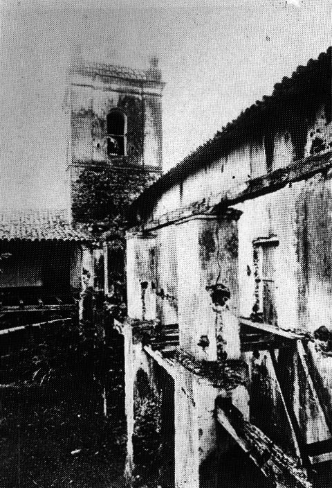 Church of the Magi before restoration